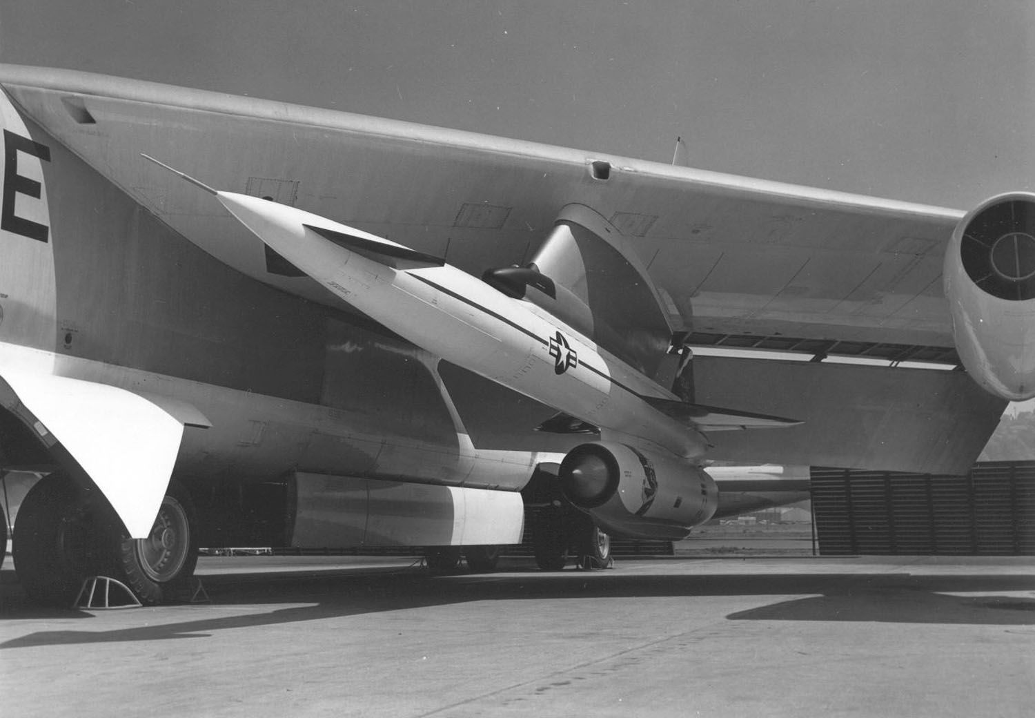 AGM-28 Hound Dog missile loaded on a B-52. (U.S. Air Force photo)